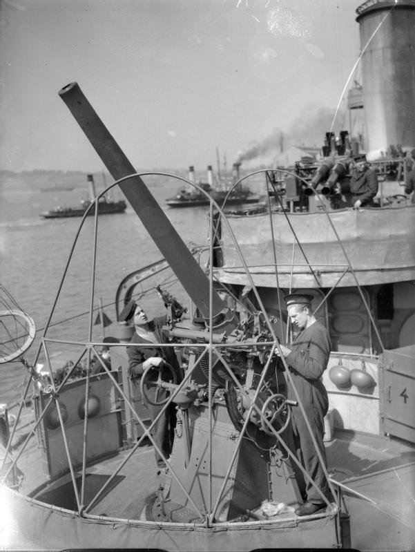 IWM caption : "Gun crews at work cleaning the single 120 mm QF Bofors M34/36 gun on board the Polish destroyer ORP BLYSKAWICA whilst she is in port." The original caption above is wrong as for the gun's type. Most sources credit it as 102 mm (4 in) Mk V AA gun, however it is evidently 76 mm (3 in) AA gun in fact.